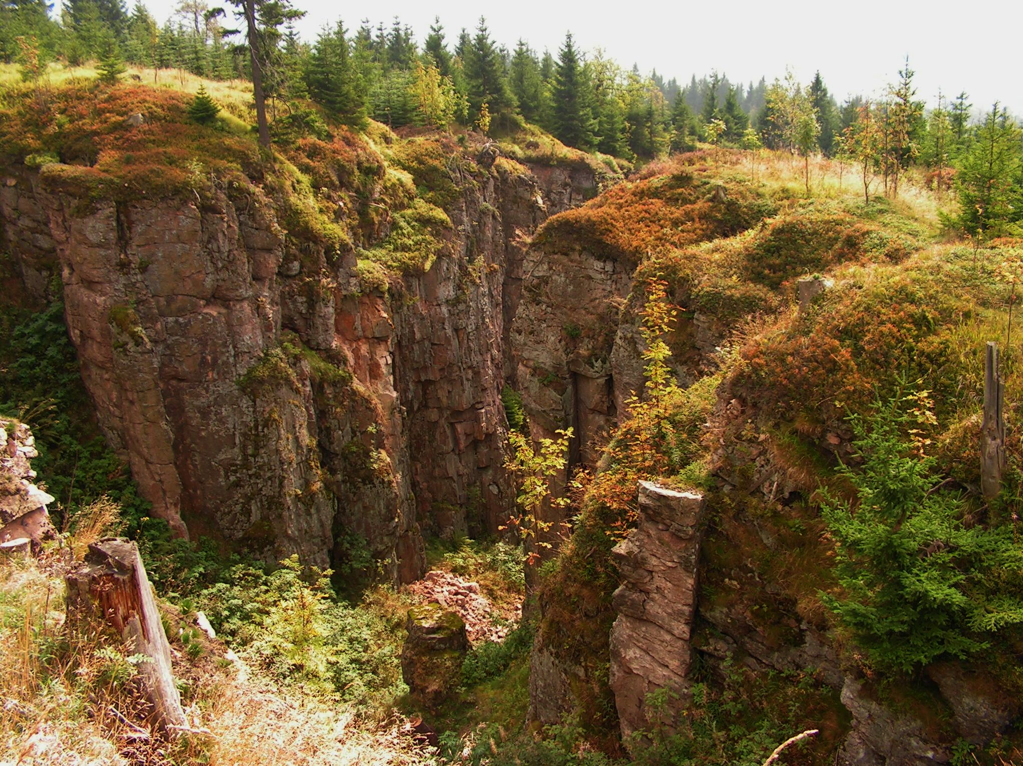 Wolfsbinge at Blatenský vrch in the Czech Ore Mountains